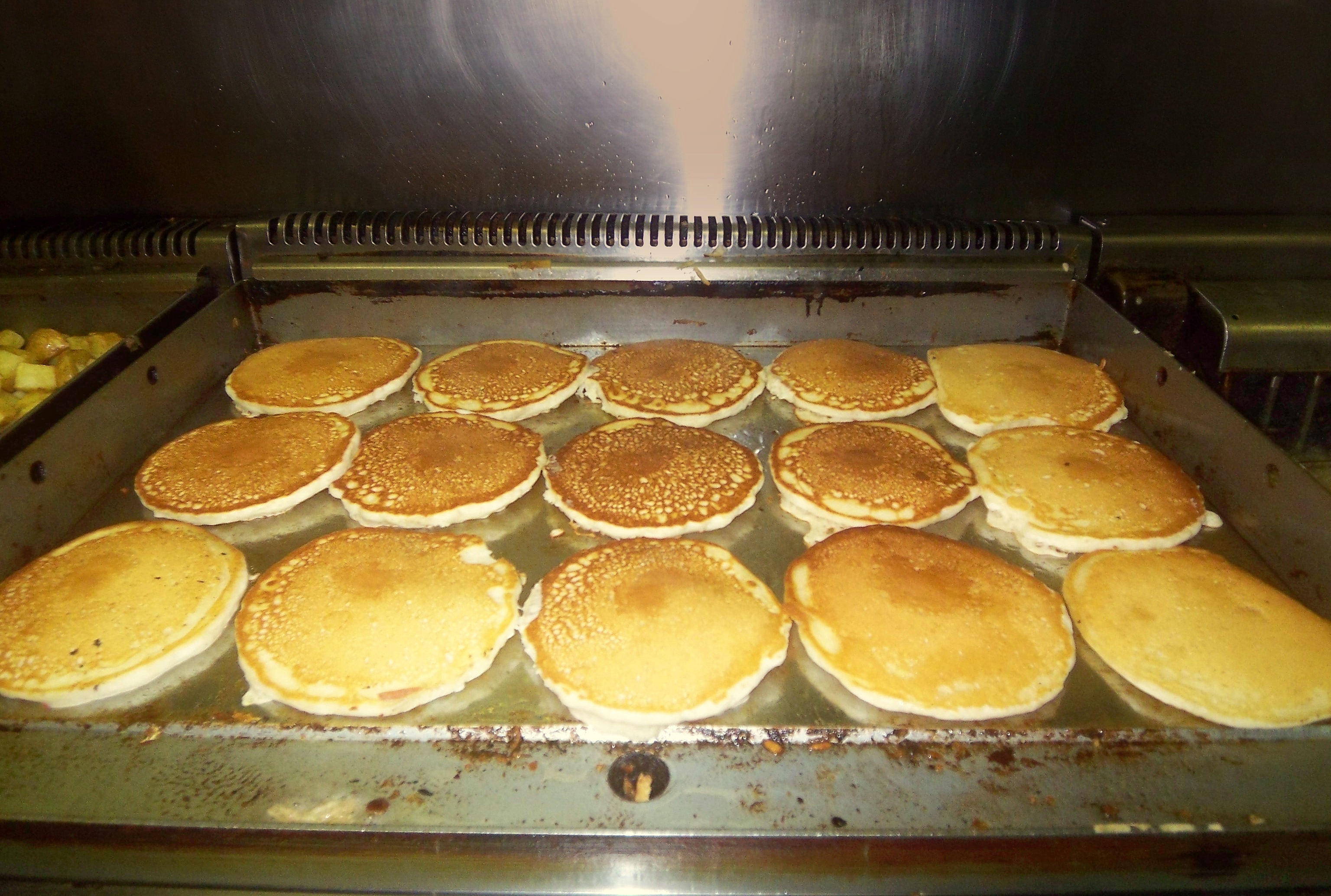 Pancakes on a diner griddle